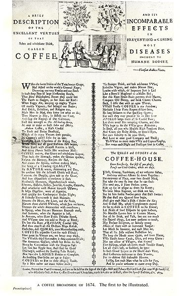 Rules and orders of a coffeehouse